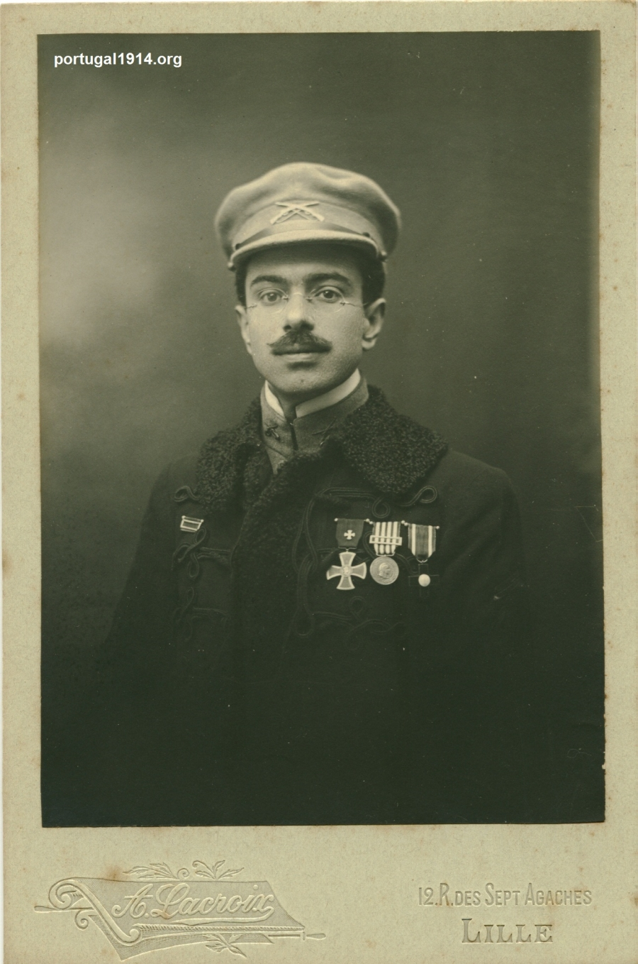 José Ribeiro Barbosa